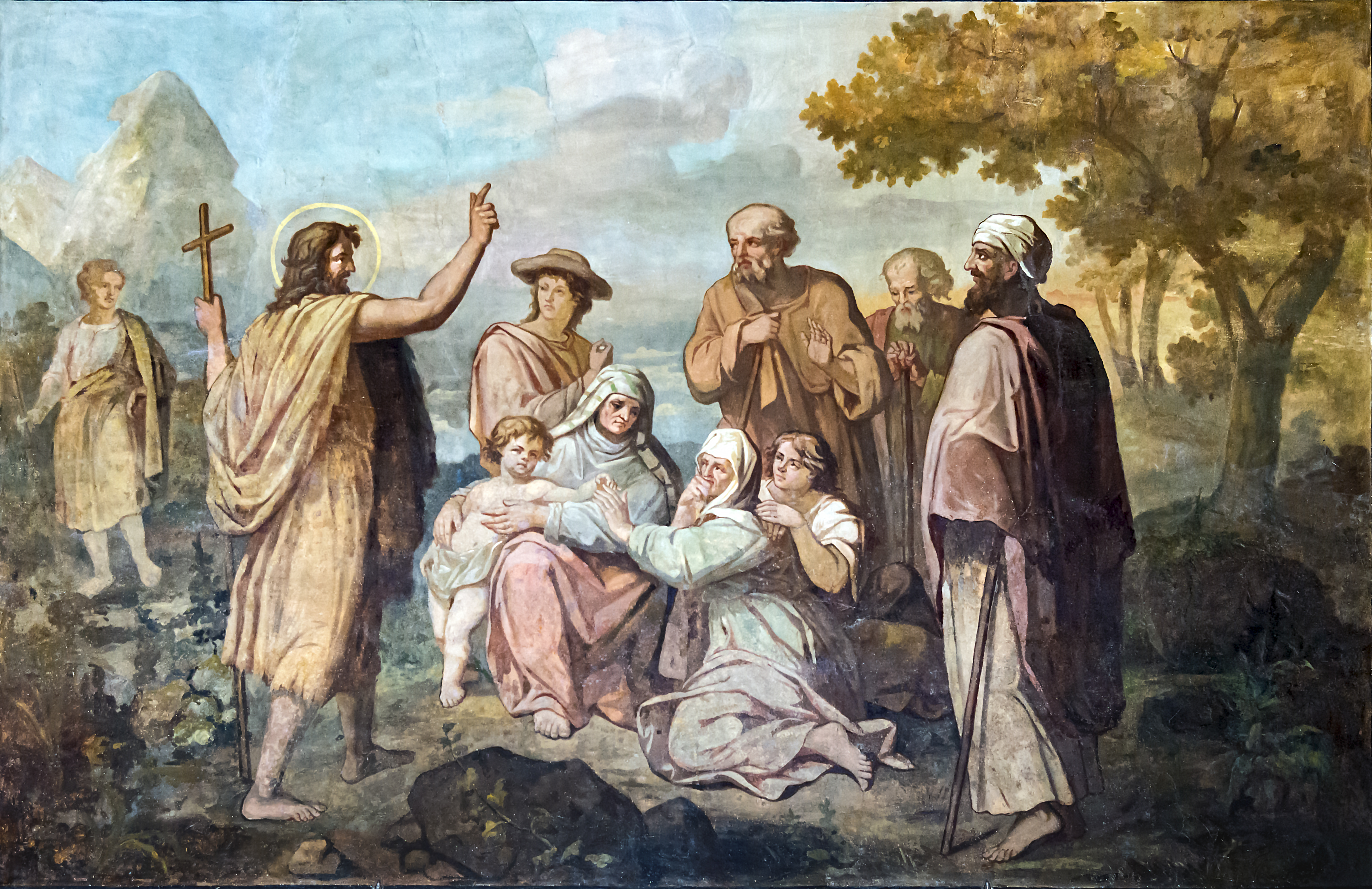 Castelnau-d'Estrétefonds. St. Martin Church - The Preaching of Saint John the Baptist by Arsène Robert (1830-1895) Prix de Rome - Second of the five monumental paintings of the choir. Leaning on a cruciform staff, Saint John the Baptist is clad in camel hair and a draped coat. Around him is crowded a crowd of women, children, young men and old men, some figured standing, others seated.